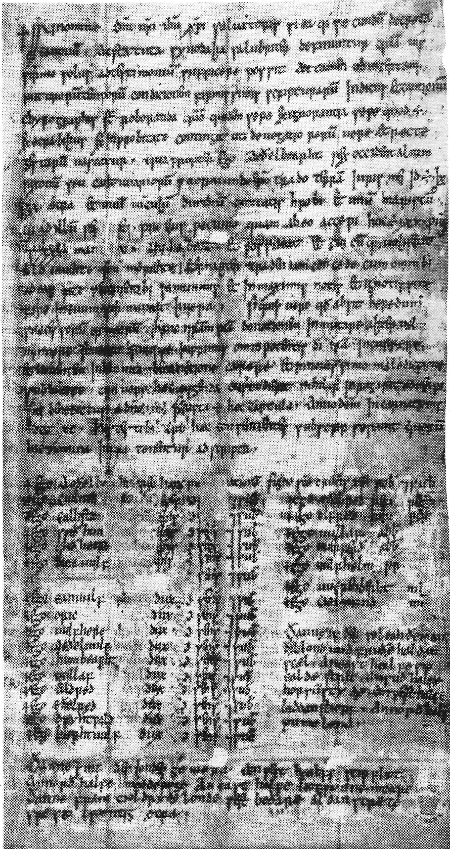 Charter S 327 of KIng Æthelberht of Wessex dated 860, granting land to Bishop Wærmund of Rochester.